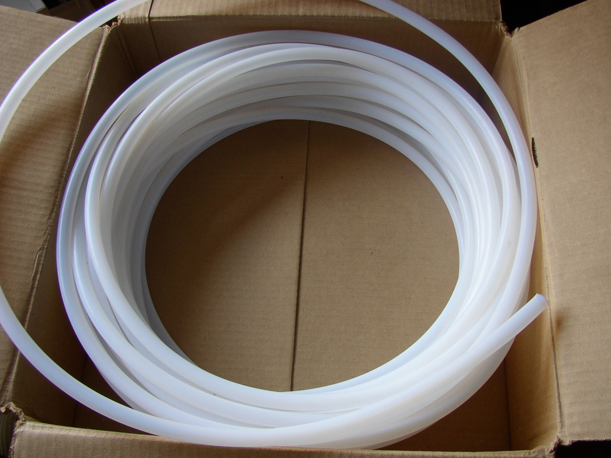 I took this image of my tubing and release it under the GFDL.